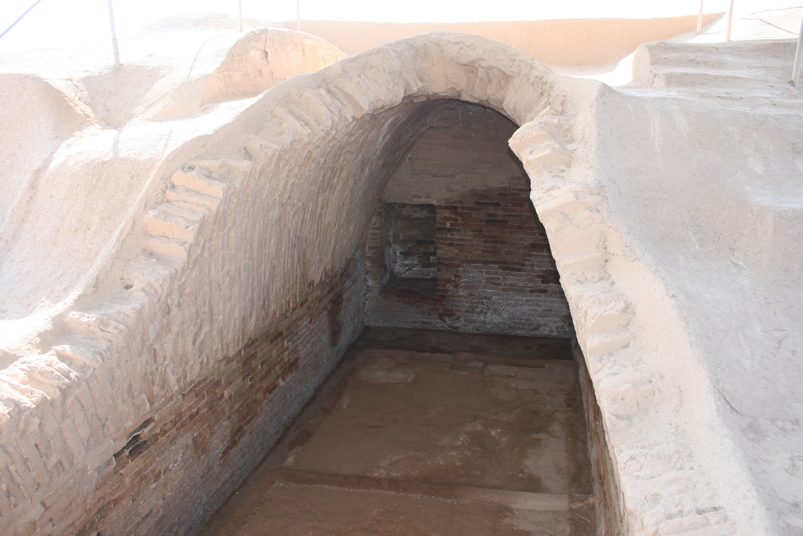 Vaulted "royal tomb" of Haft Tepe (Iran)